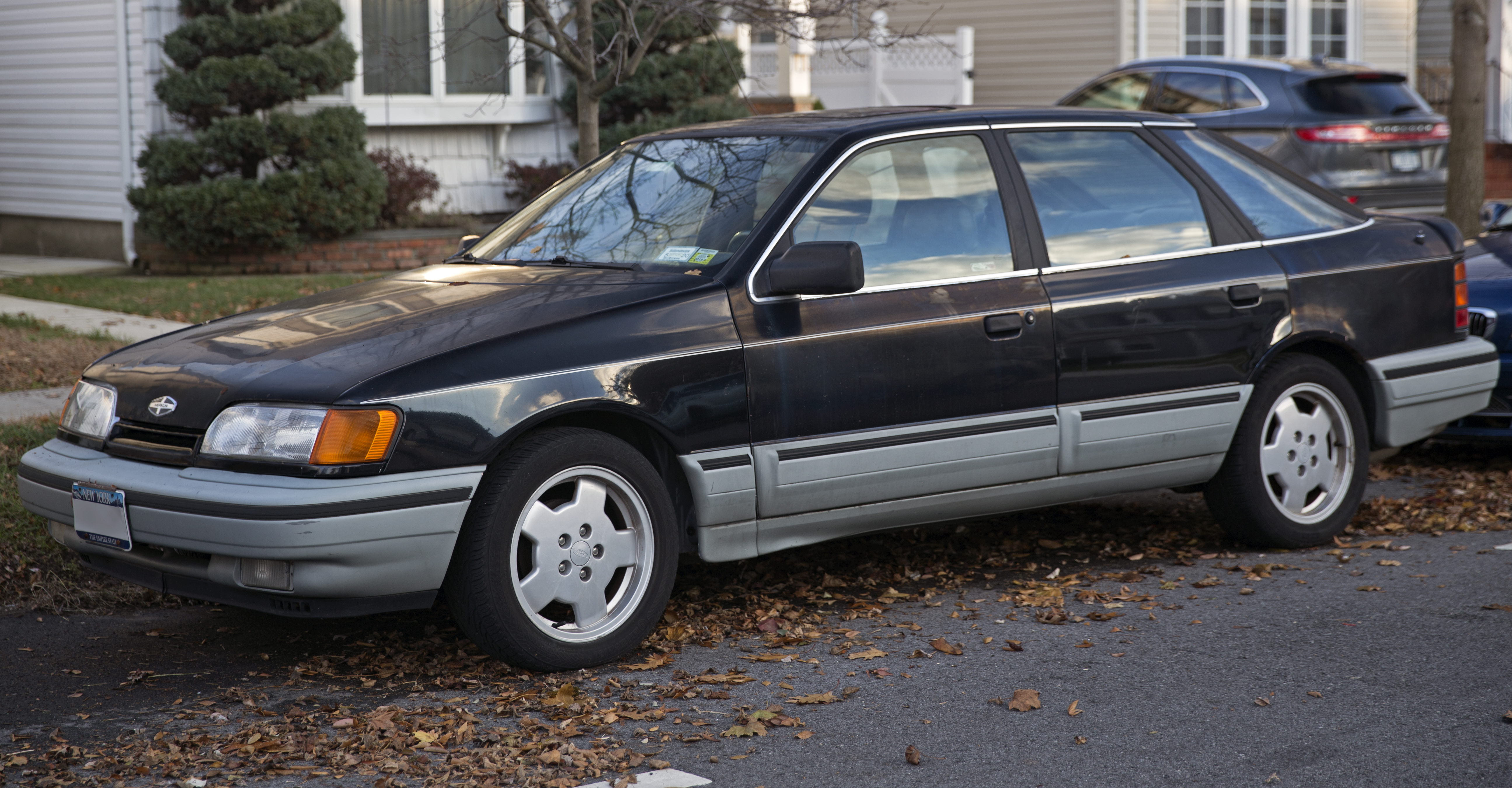 A 1989 Merkur Scorpio; 2.9-liter Cologne V6 with 144hp and a five-speed manual. This example seems to have been fitted with the European 24-valve version's alloy wheels.